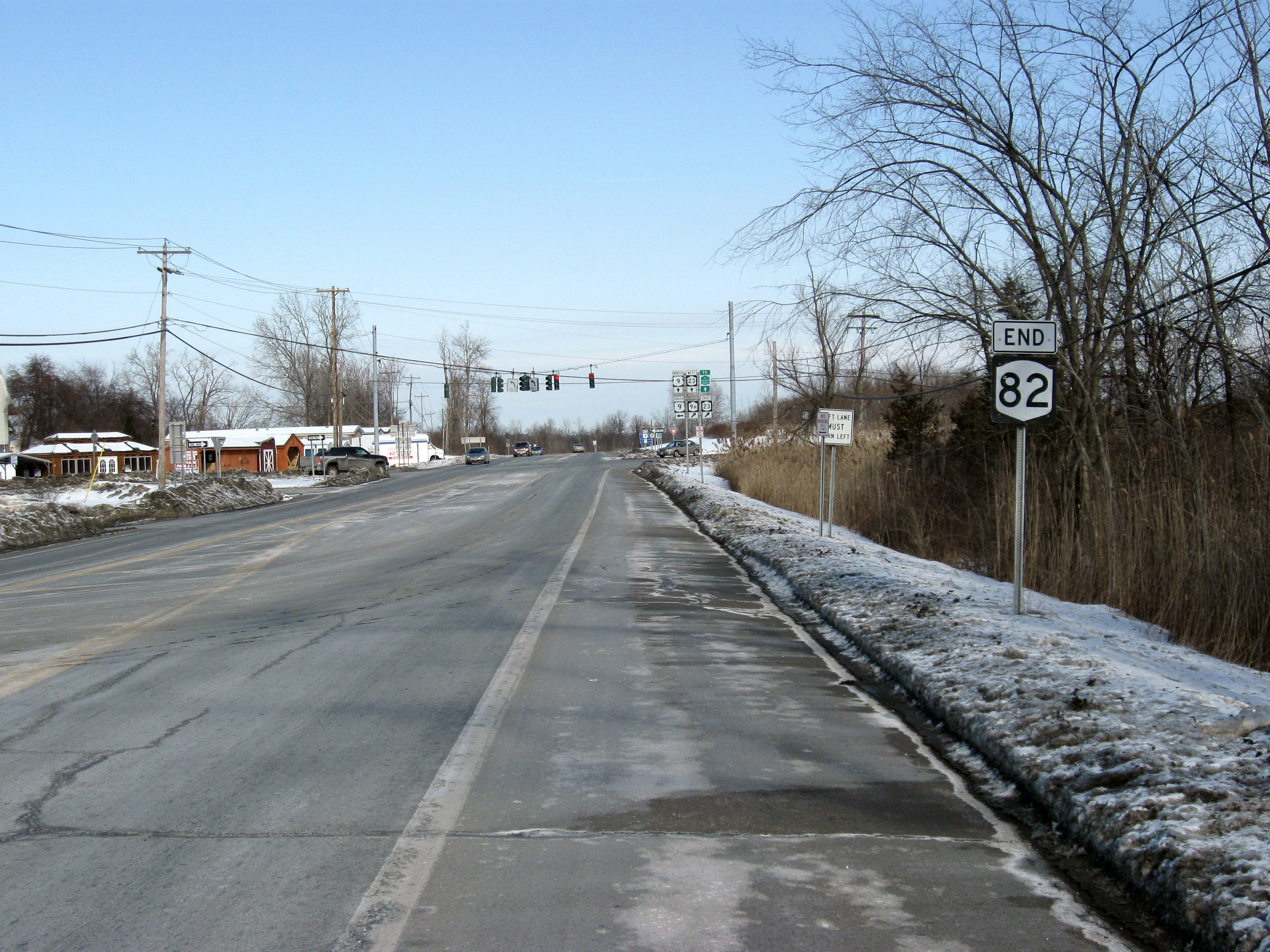 The northern terminus of NY 82 in Bell Pond, New York. It is about to intersect with US 9, NY 23, and the southern terminus of NY 9H.